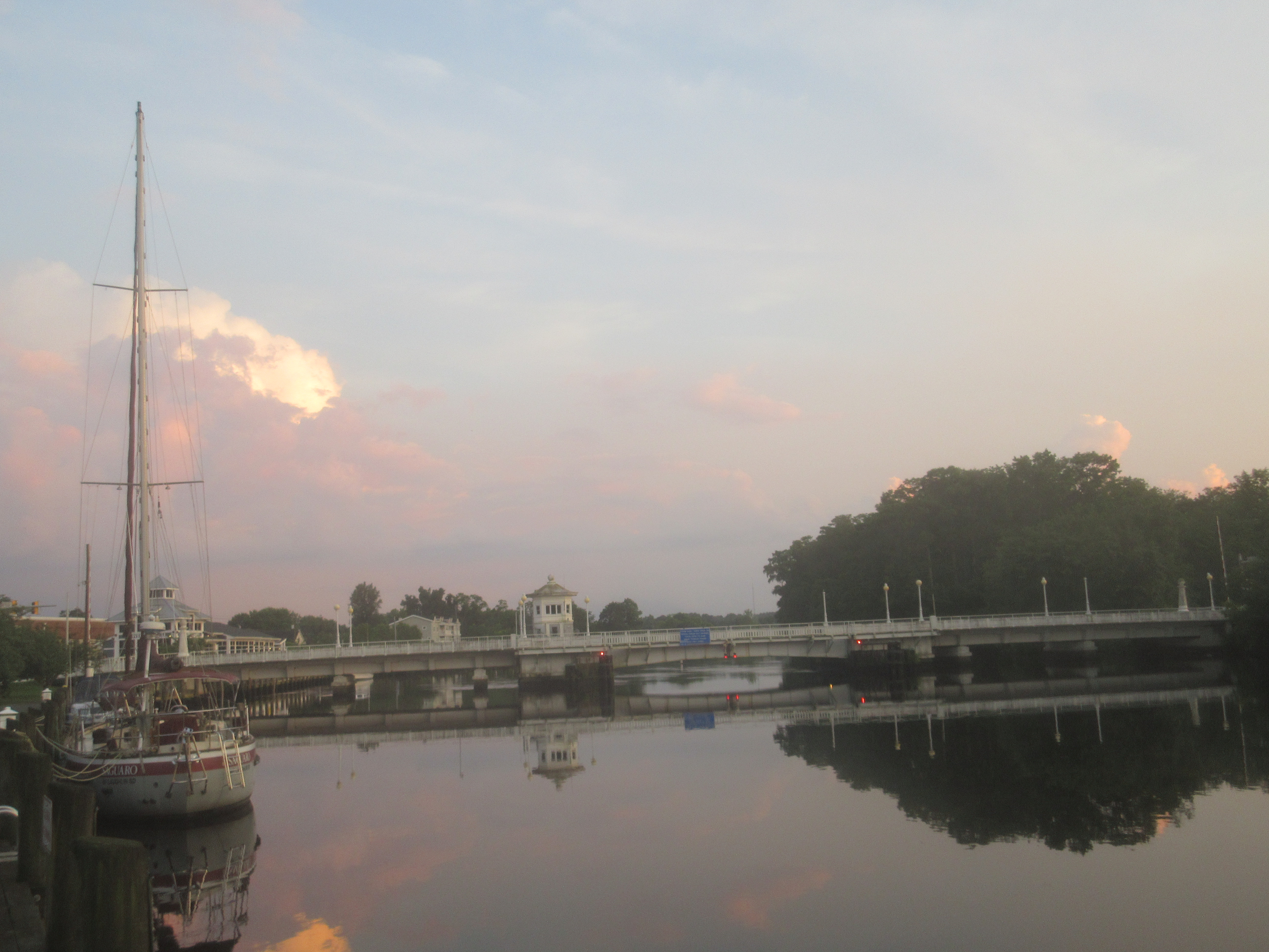 Taken 7-20-2016.